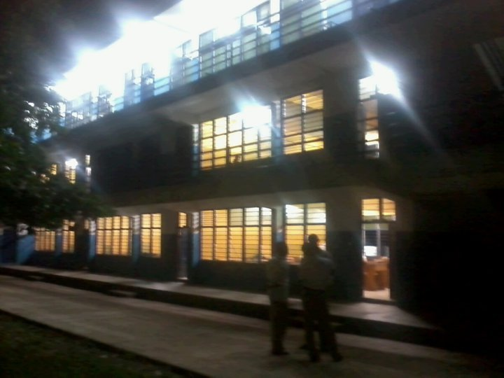 Abandze